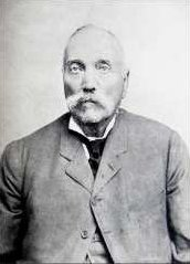 Marthinus Wessel Pretorius, President of the South African Republic and President of Orange Free State; Founder of Pretoria.